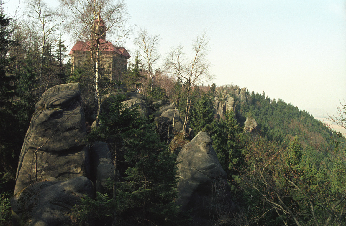 Broumov walls, chapel on Hvezda